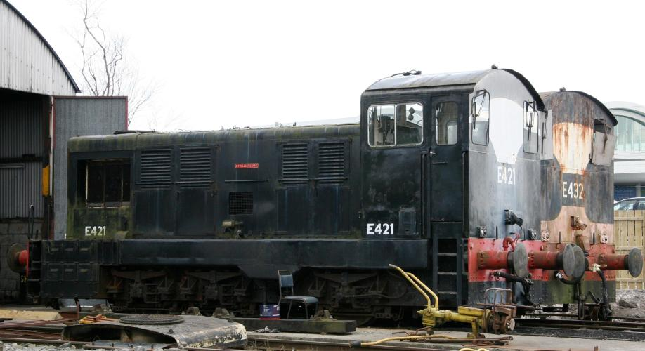 CIE E Class Shunters 421 and 432